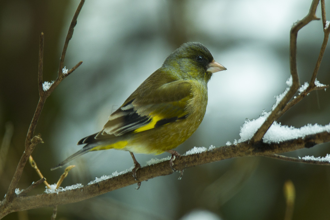 Oriental Greenfinch - Honshu - Japan_S4E2635